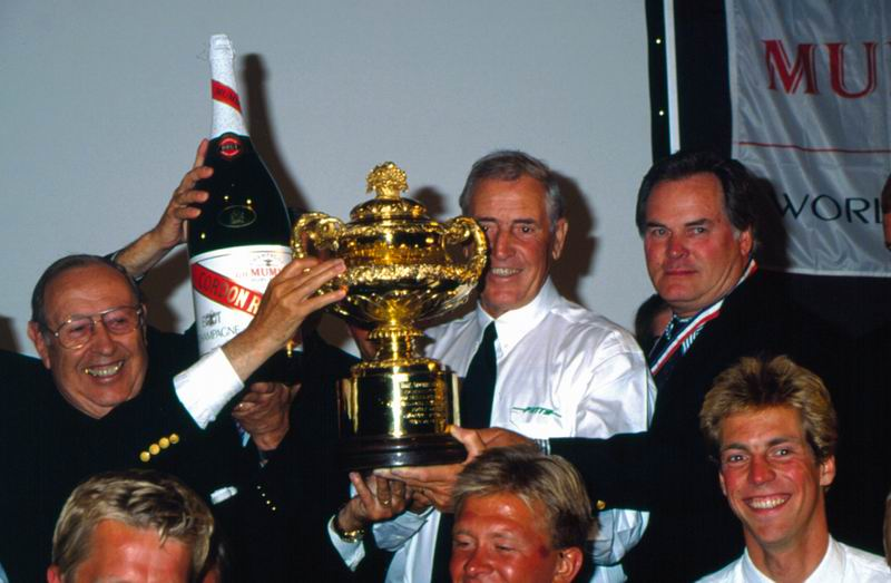 Admirals Cup 93 win Schümann+Willi Illbruck+Schütz